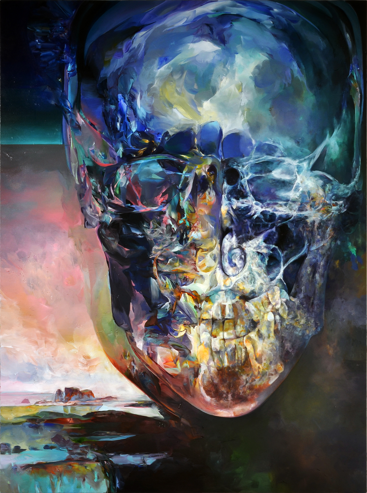 Pavel Vašíček, Consciousness (2017), oil on canvas, 200x150 cm